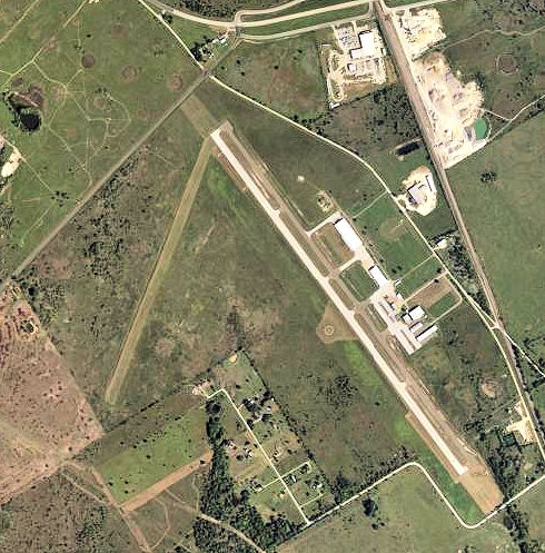 USGS digital orthophoto of C. David Campbell Field in Texas